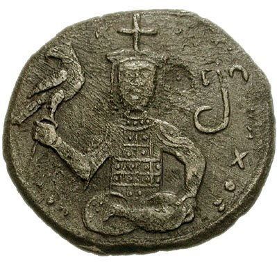 GEORGIA. Giorgi III. 1156-1184. CU Fals (24mm, 5.41 g, 3h). Dated 394 of Orthodox Paschal Cycle (AD 1174). Giorgi seated facing crosslegged, wearing crown with pendilia and cross, and cuirass, holding falcon standing right with head left, other hand on knee; [to left. 394 of Paschal cycle in ecclesiastical characters]; to right, GI monogram in Georgian characters above monograms in ecclesiastical characters / “King of Kings, Giorgi, son of Dimitri, Sword of the Messiah,” in Arabic in three lines across field. Kapanadze 57; Lang 9. VF, brown patina, minor adjustment marks. Very rare.